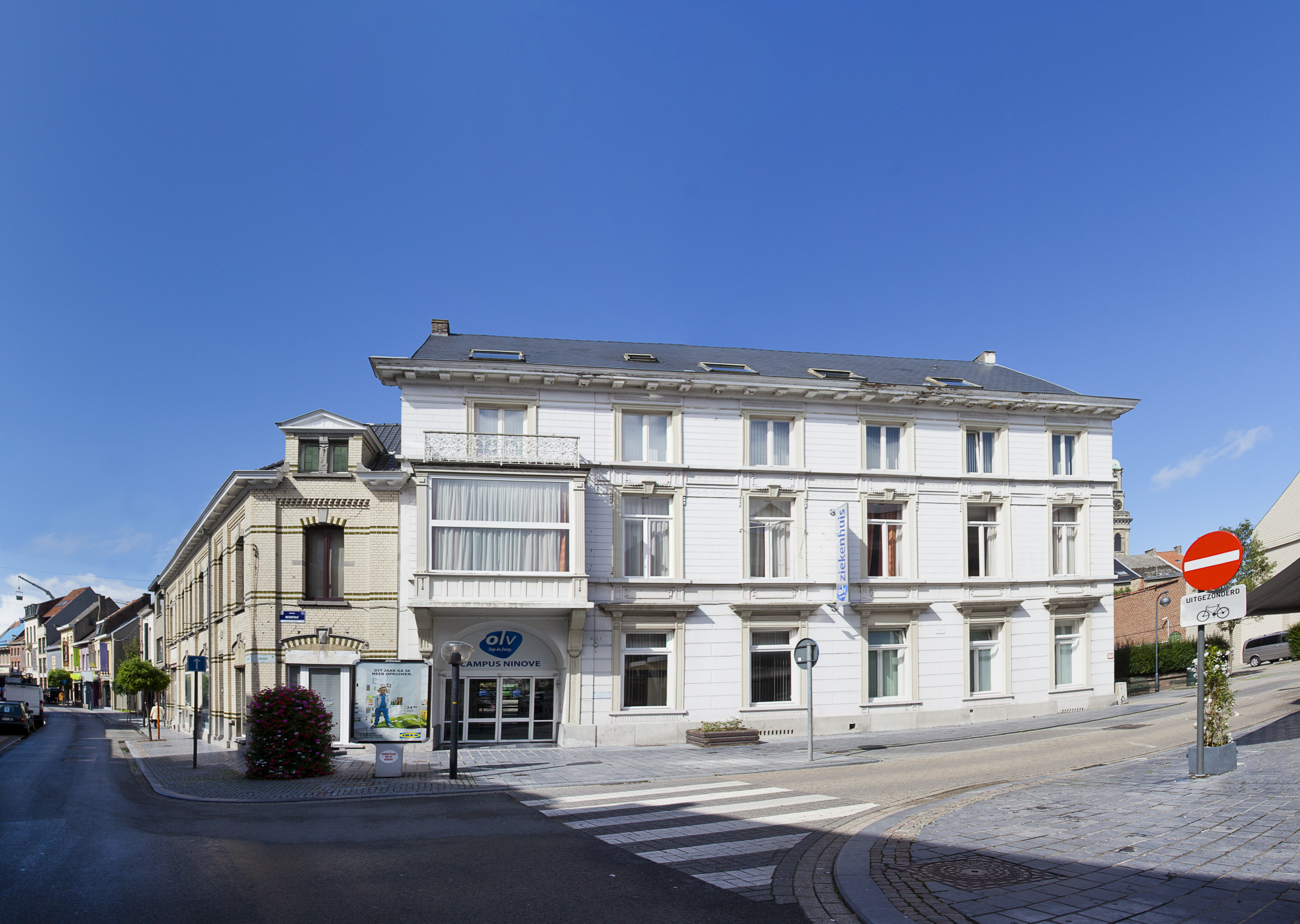 Front view of the Our Lady Hospital section Ninove.